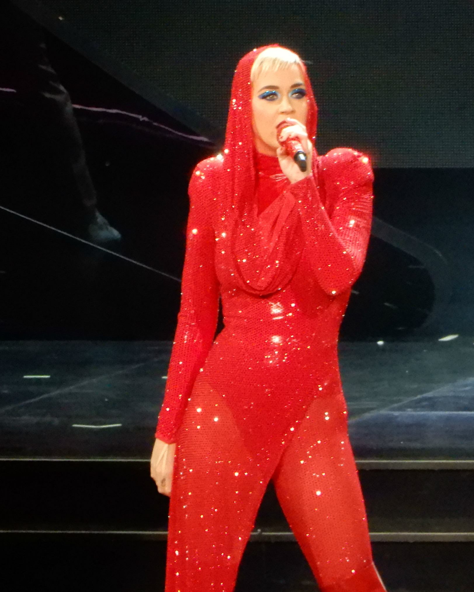 Katy Perry at Madison Square Garden